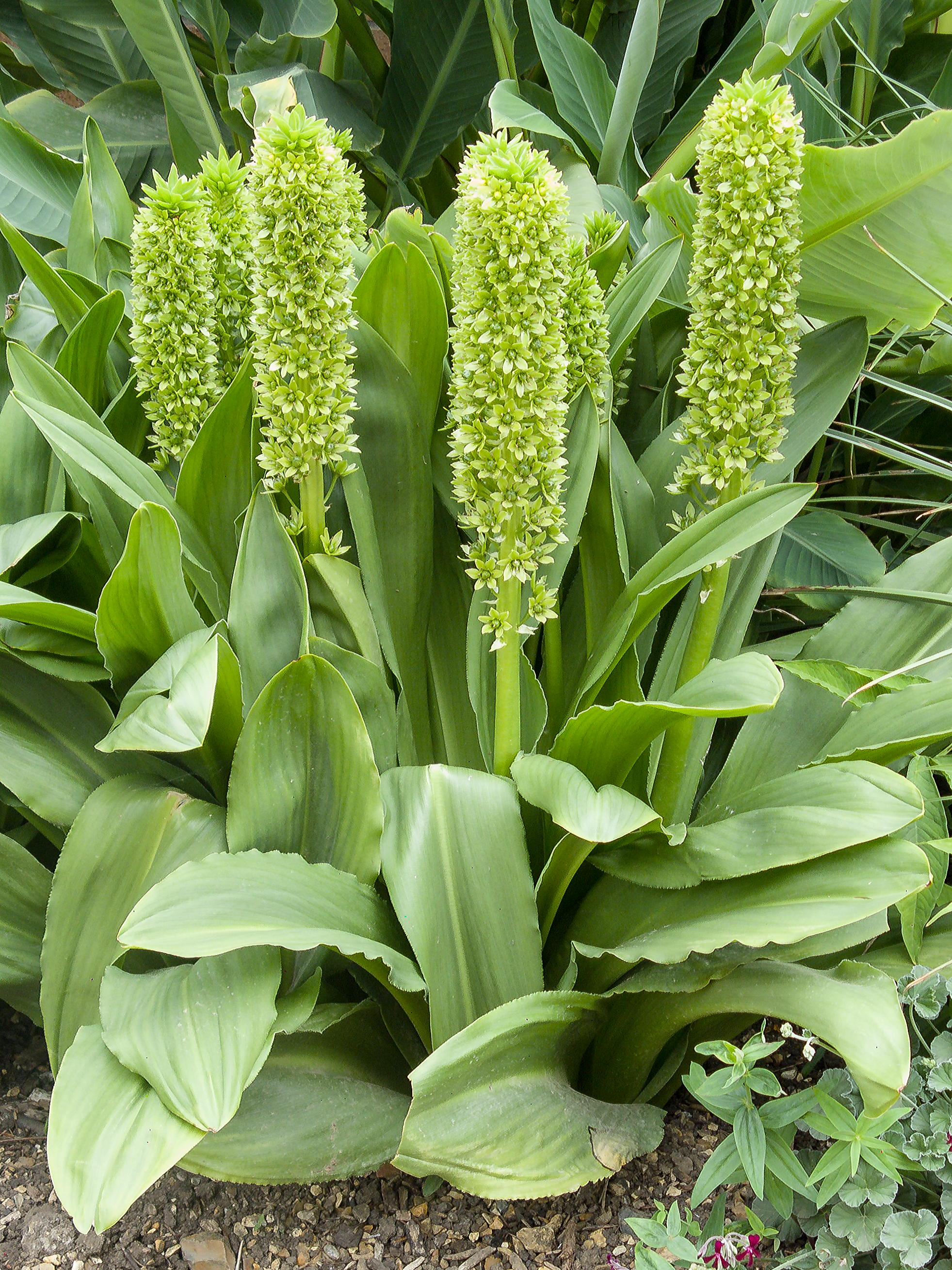 Eucomis pallidiflora subsp. pole-evansii (labelled Eucomis pole-evansii), growing in the Cambridge University Botanic Garden